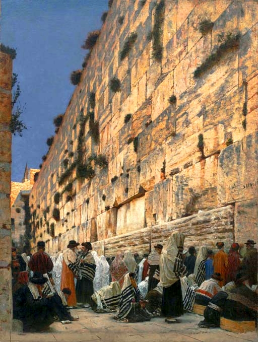 Solomon's Wall. (Jerusalem). Oil on canvas, 78½ x 59¾ in. (199.4 cm. x 151.8 cm.). Private collection